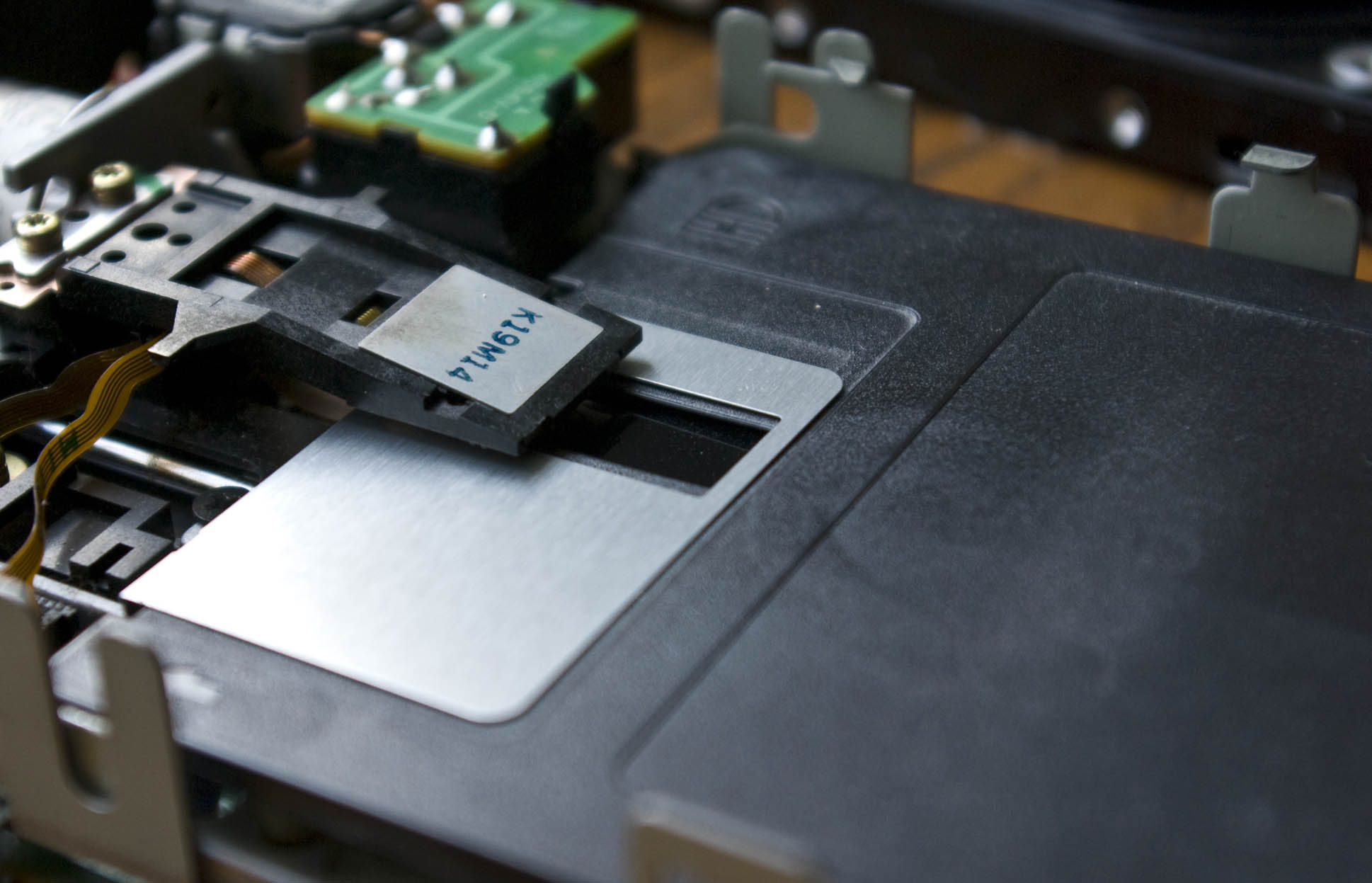 A Floppy drives La tête de lecture d'un lecteur de disquette